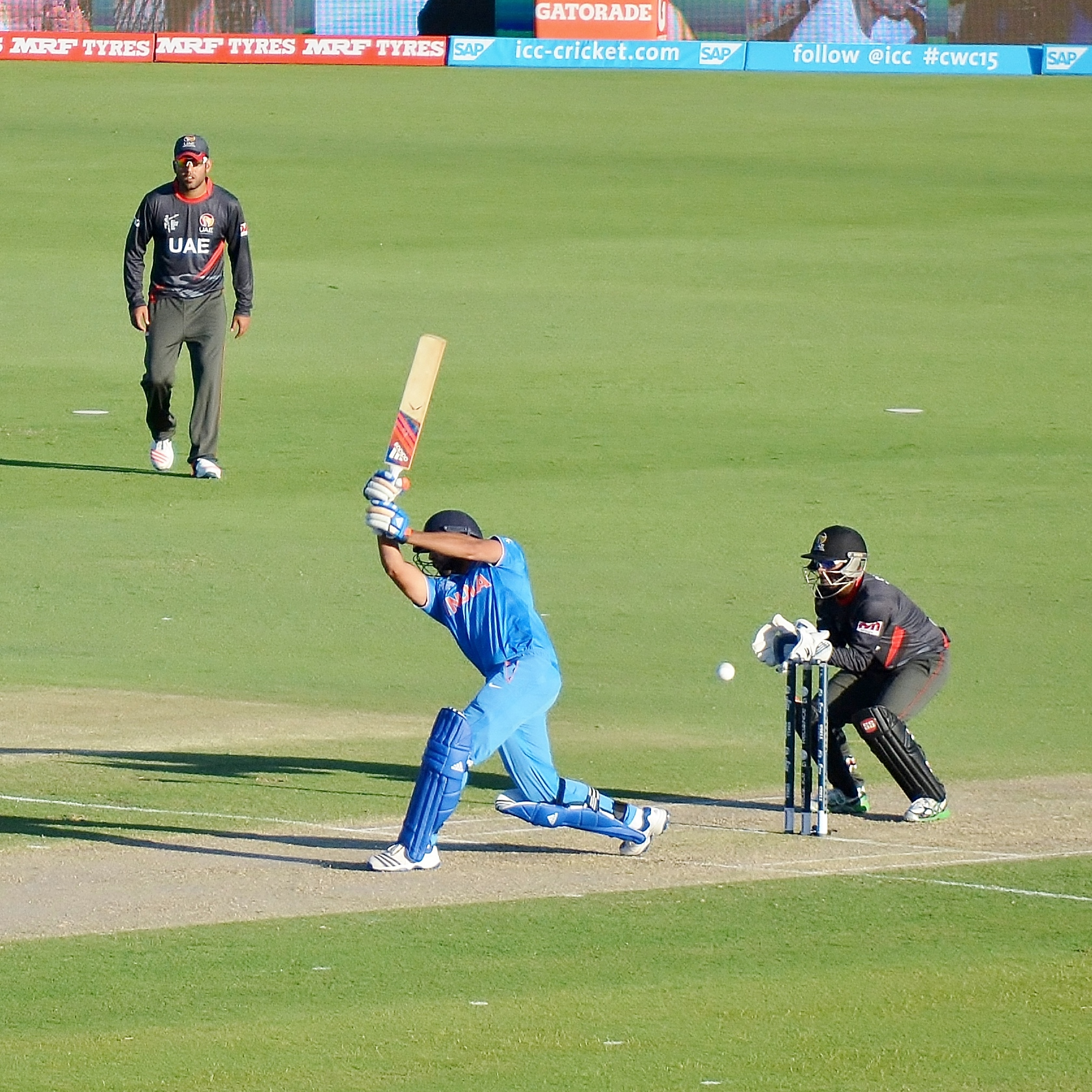 Rohit Sharma batting for India against United Arab Emirates during their 2015 Cricket World Cup match at the WACA Ground in Perth, Australia. The UAE wicketkeeper is Swapnil Patil.